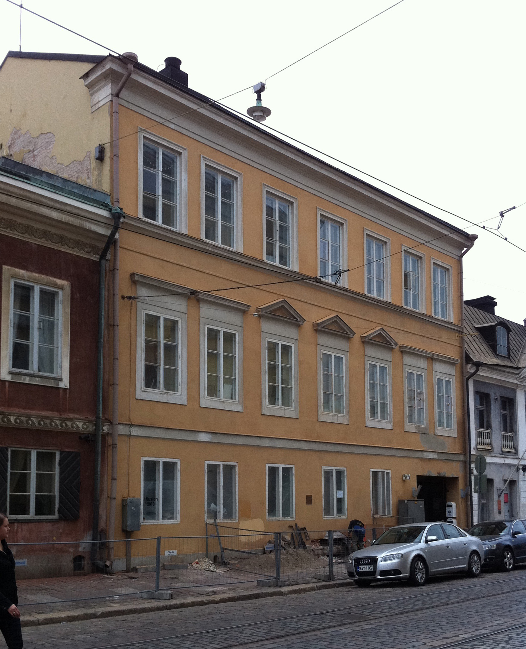 Remander house, Aleksanterinkatu 16, Helsinki, built 1814. Third floor built 1873.